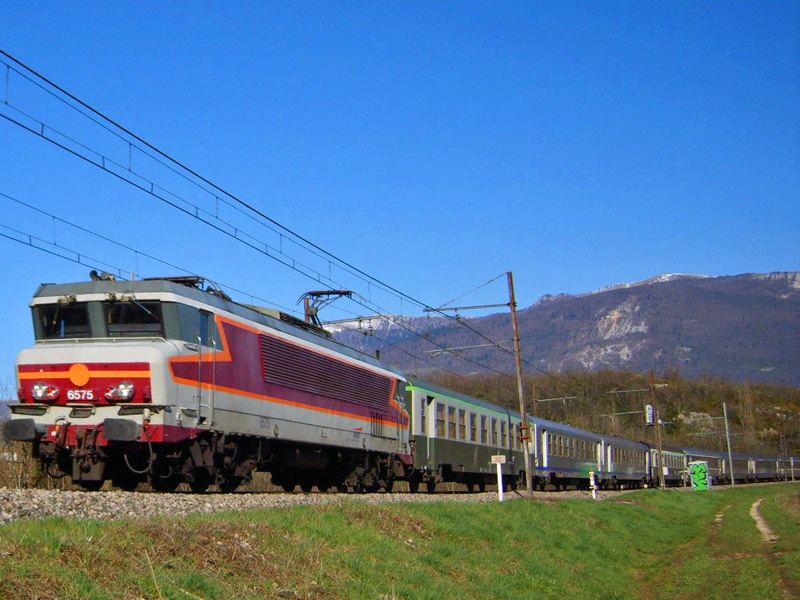 The CC.6575 with a train Modane - Lyon